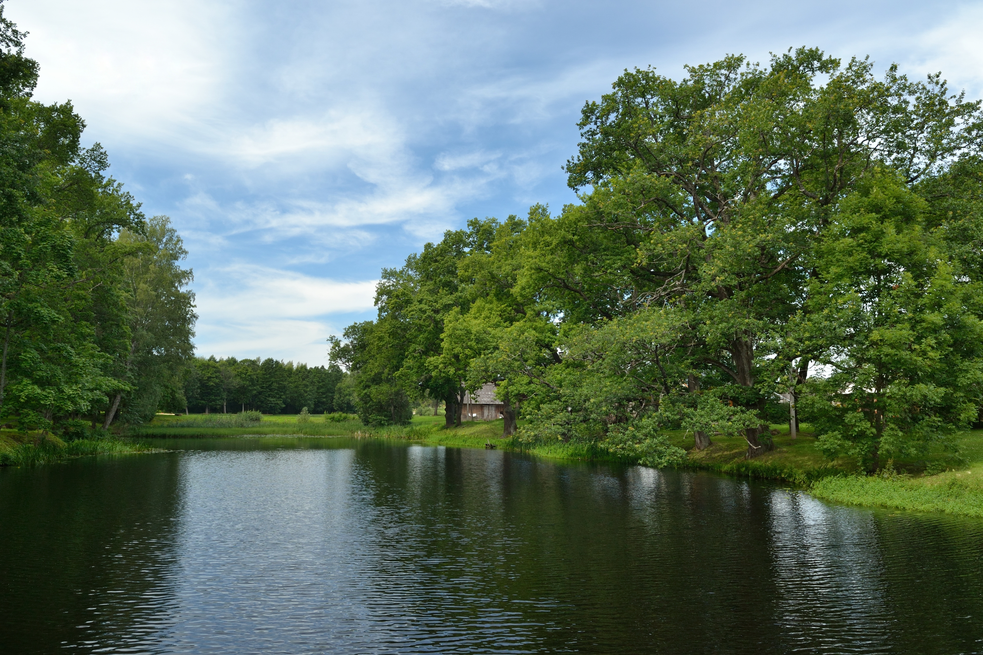 Lake Keskmine